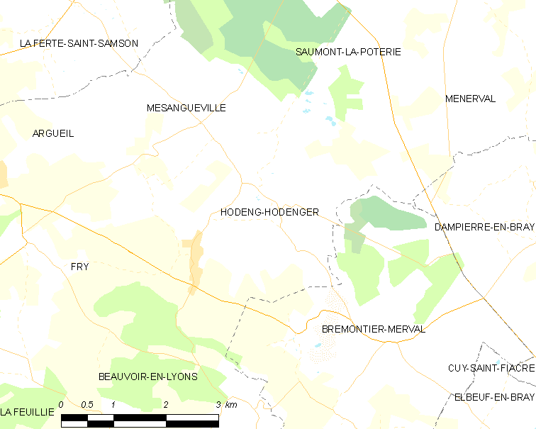 Map of French municipality Hodeng-Hodenger